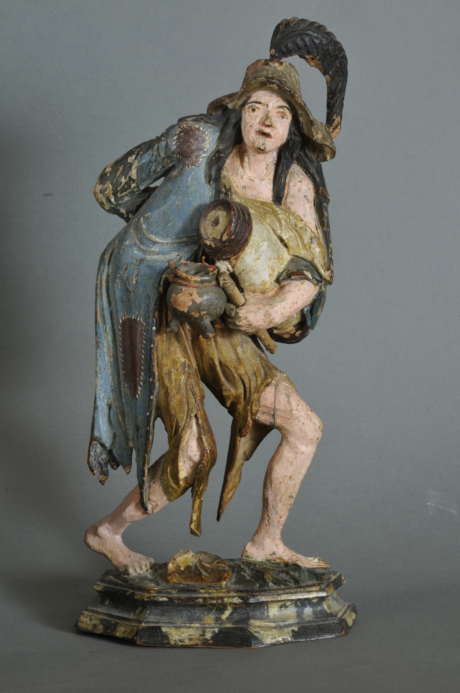 Beggar holding a bagpipe carved in swiss pine, paintedfrom Gröden 18 th century.